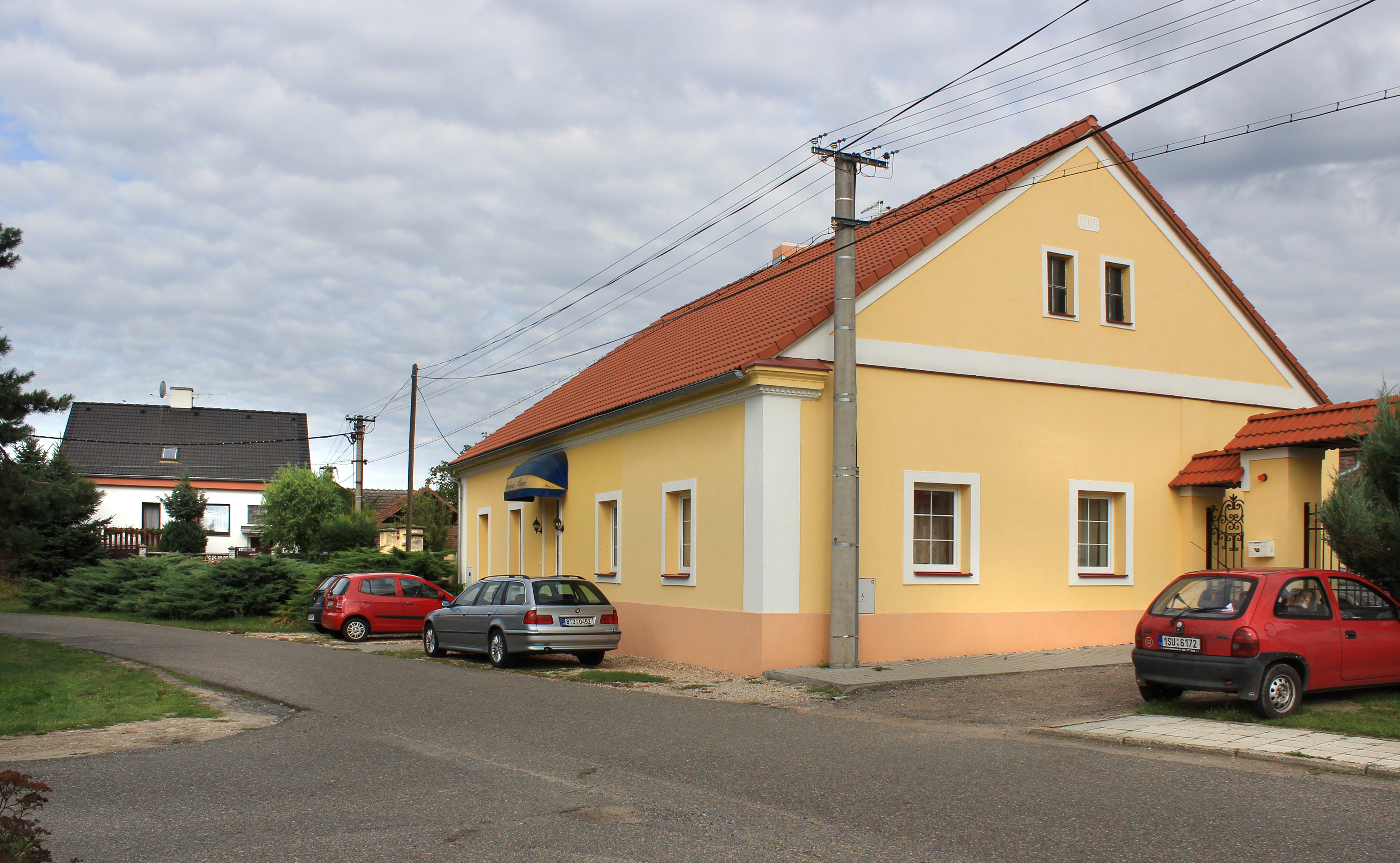 House No. 32 in Písková Lhota, Czech Republic.